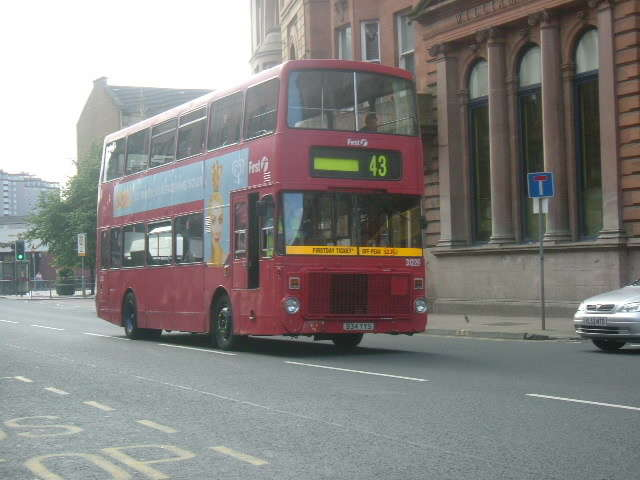 First Glasgow bus 31226 (reg. B34 YYS), pictured in Bridgeton heading west on the A74 London Road (Landressy Street junction) operating route 43, Craigend to Glasgow city centre. For the full vehicle history, see the extracted image.